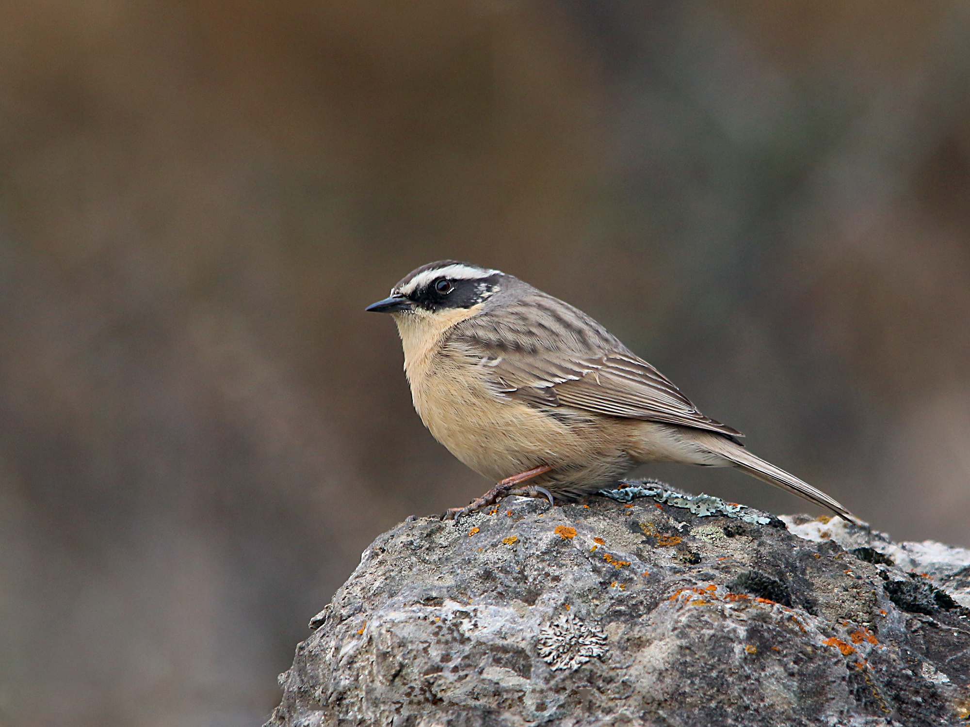 Brown Accentor (Prunella fulvescens) captured at Jutial, Gilgit, Gilgit-Baltistan, Pakistan with Canon EOS 650D